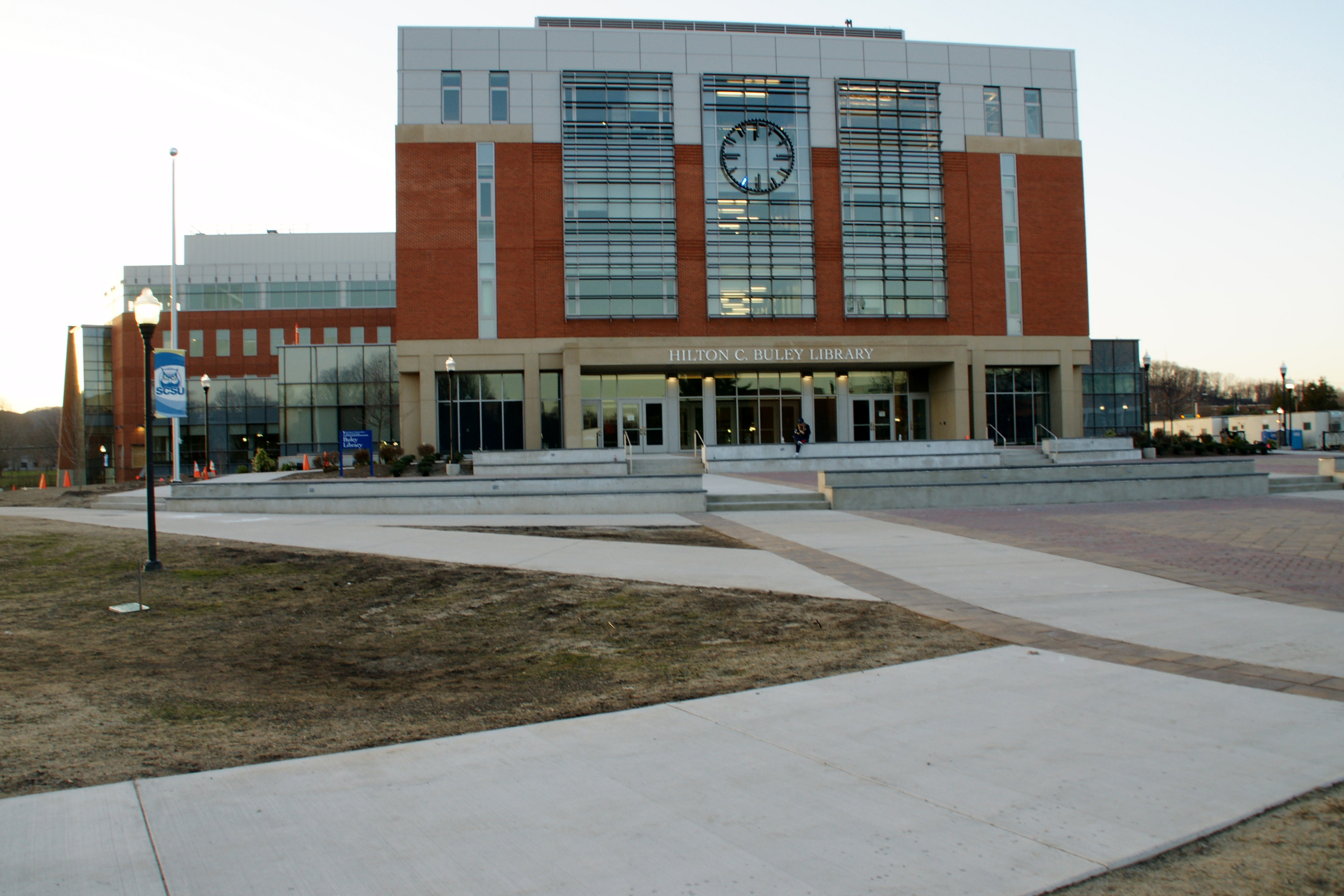 Facade of the renovated Hilton C. Buley Library